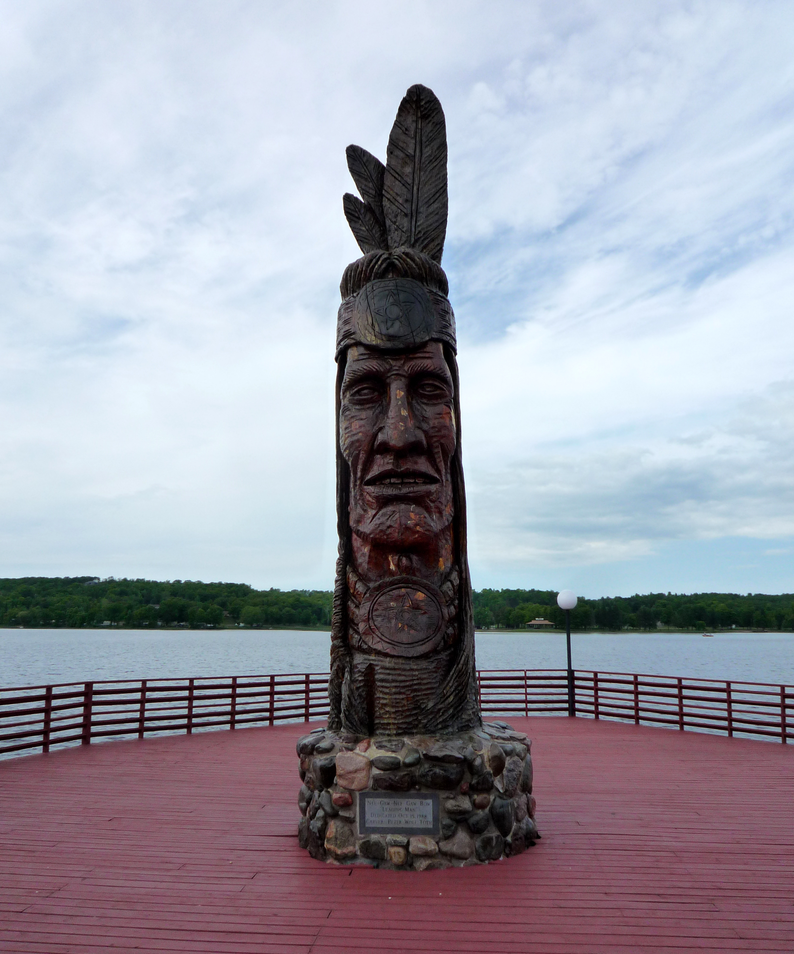 "Nee-Gaw-Nee-Gaw-Bow" ('Leading Man') — by sculptor Peter Wolf Toth in 1988. A sculpture to honor the Chippewa (Ojibwa) Indians — part of his 50 state Trail of the Whispering Giants series Located on the lakeside pier next to the Wakefield Visitor’s Center at Sunday Lake, in Wakefield, Gogebic County, in the western Upper Peninsula of Michigan. The 20 feet (6.1 m) tall sculpture was carved from a single piece of pine, donated by the Ottawa National Forest. Credits Photo taken by Bobak Ha'Eri, on June 17, 2009. Please observe license and properly cite in use outside Wikipedia. If you have any questions about the licensing, please feel free to use the contact information at my user page. no copyright notice on sculpture nor registration with the US Copyright Office.